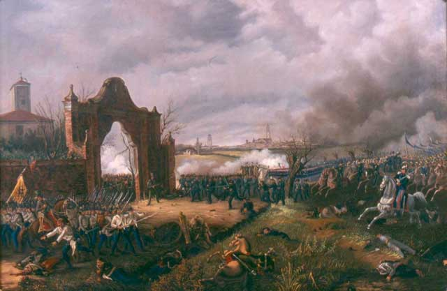 Scene from the Battle of Novara, March 23rd, 1849. (Fight around the Villa Visconti, today Villa Mon Repos)